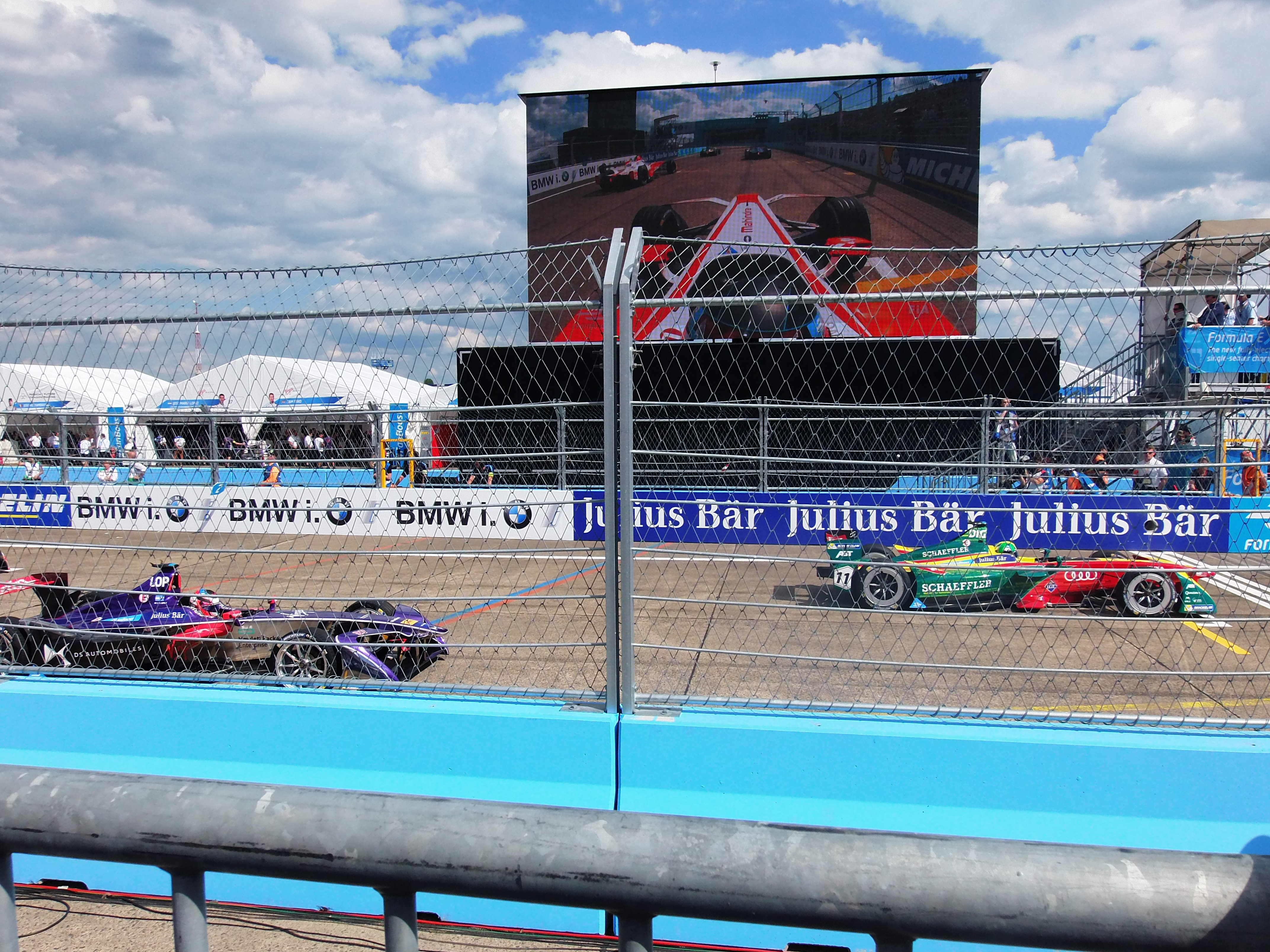 Lucas di Grassi and José María López starting from the first row of the grid